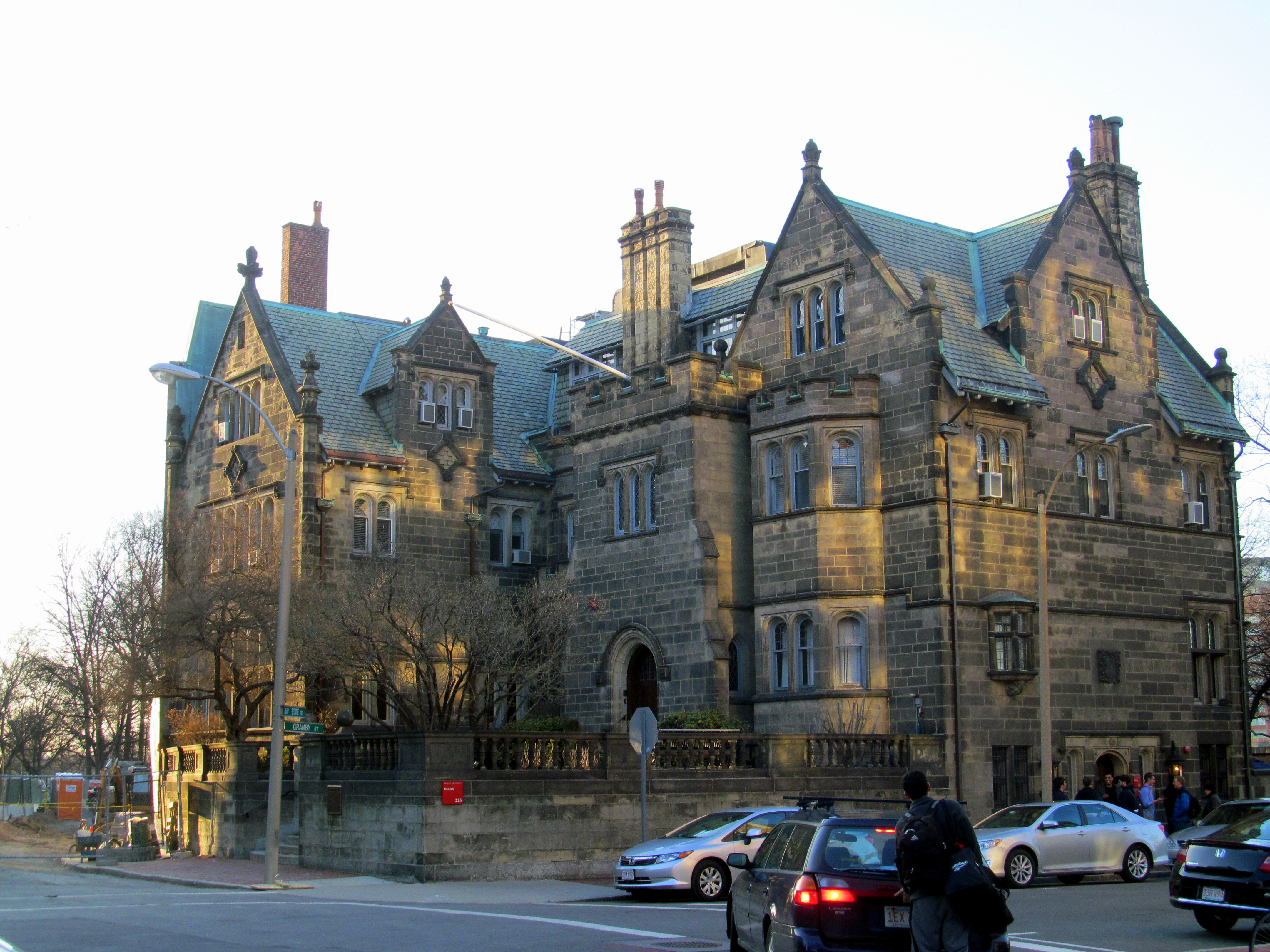 The Castle at Boston University, seen from the Bay State Road side